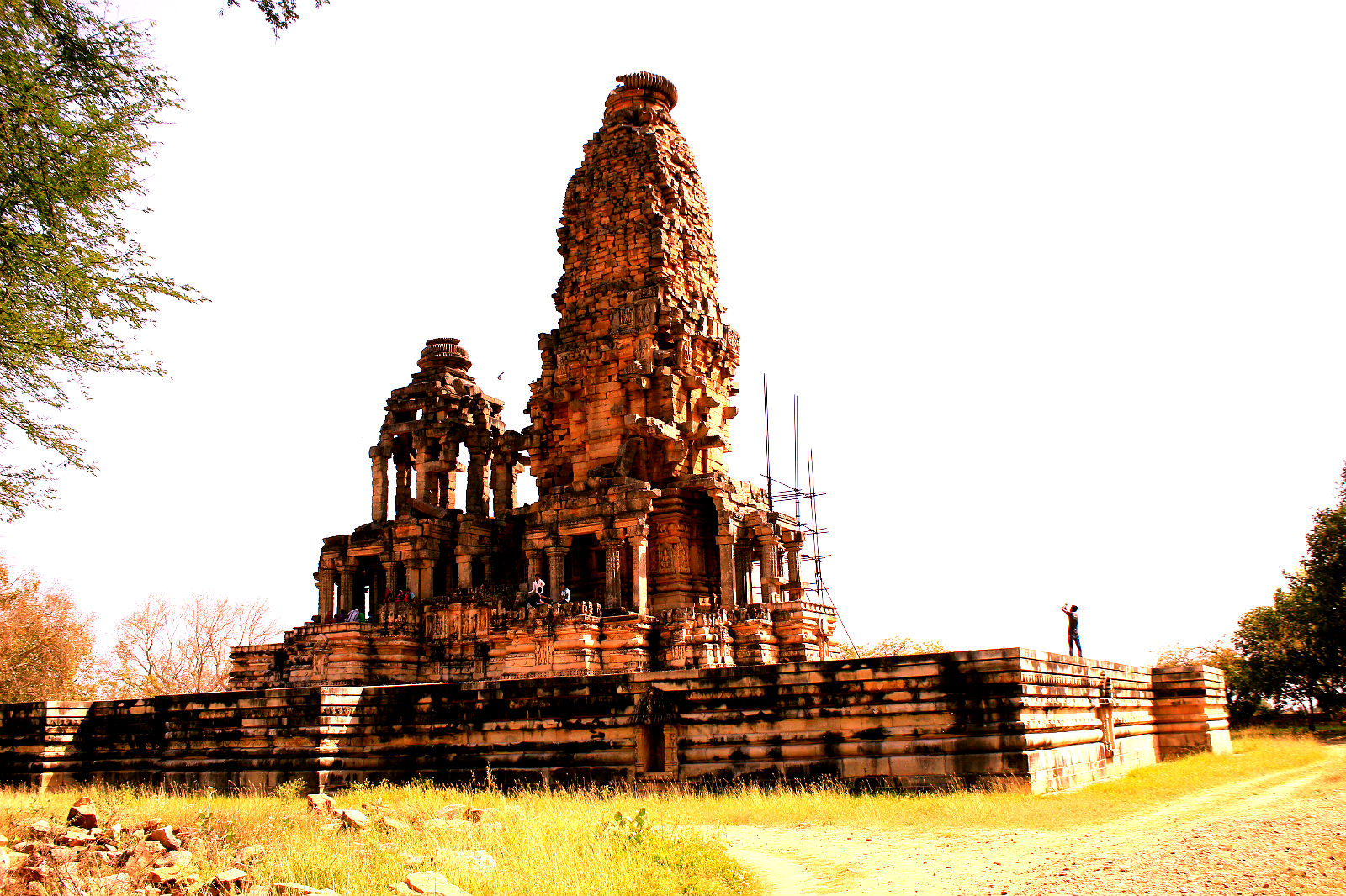 Built by the Kacchapaghata dynasty this is one of the highest temples in north India, situated in Morena district